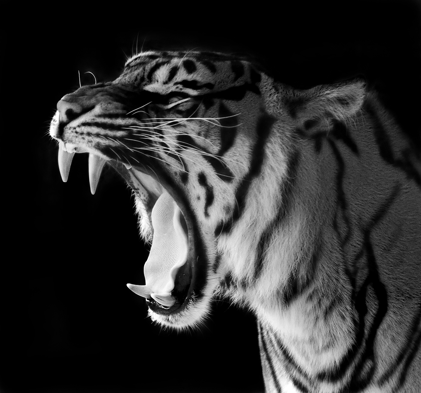 Previously posted photo in a black and white version